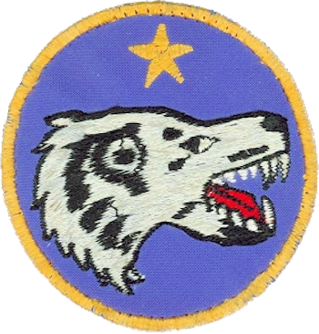 144th Fighter-Bomber Squadron - patch